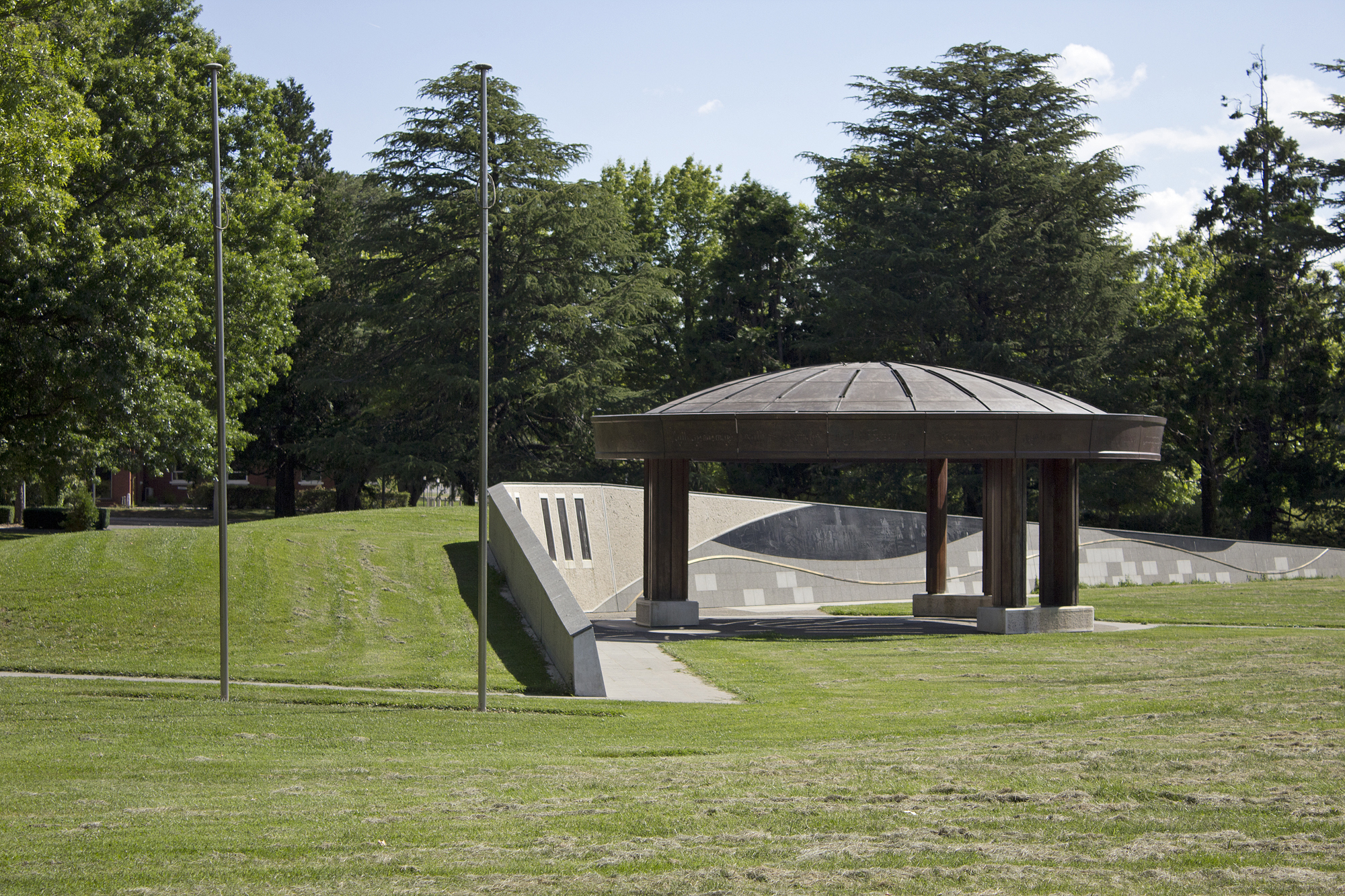 Magna Carta Place in Parkes, Australian Capital Territory.